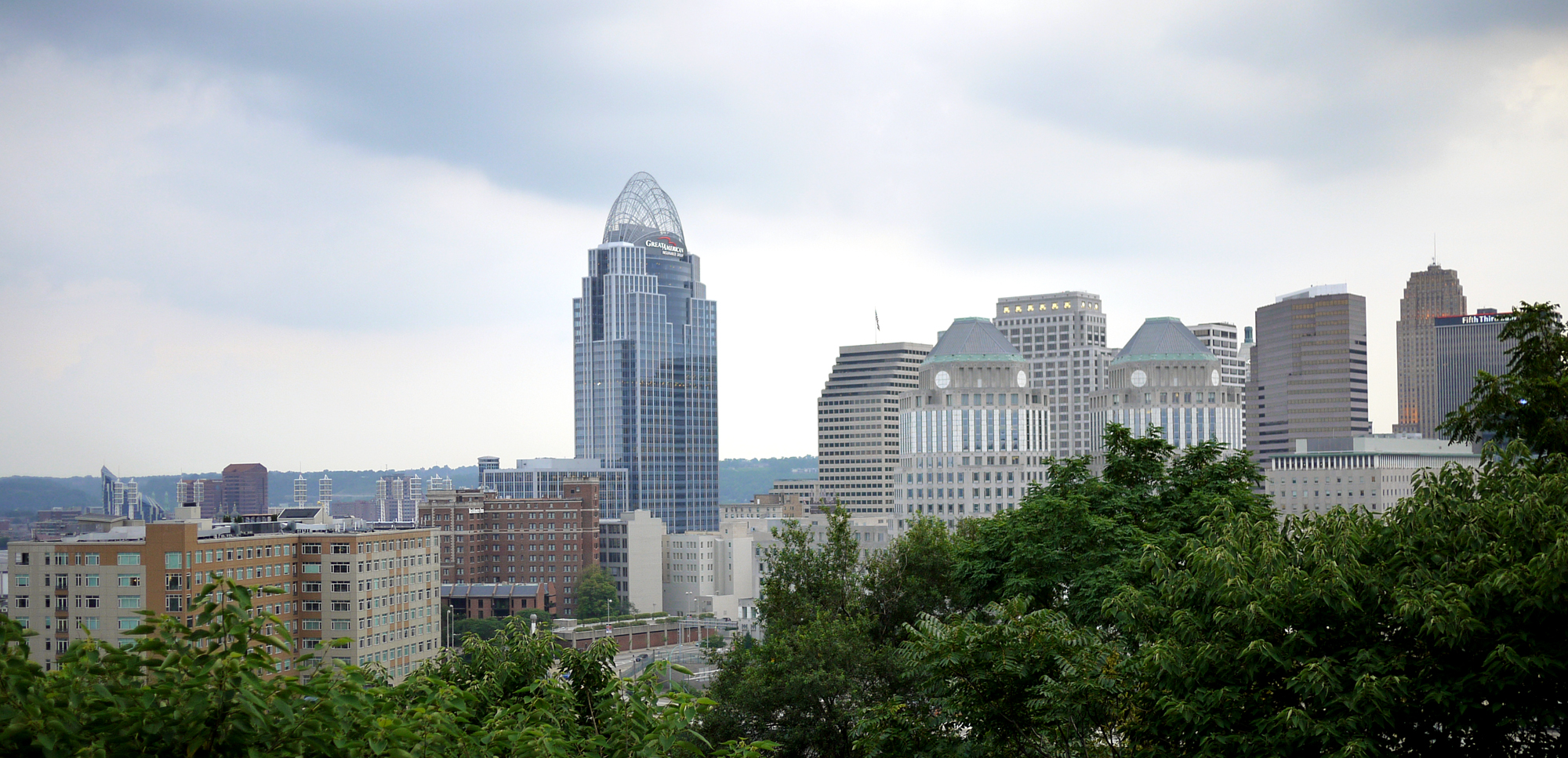 Westward view of Downtown Cincinnati with the Great American Tower to the left, and Procter & Gamble headquarters to the right.